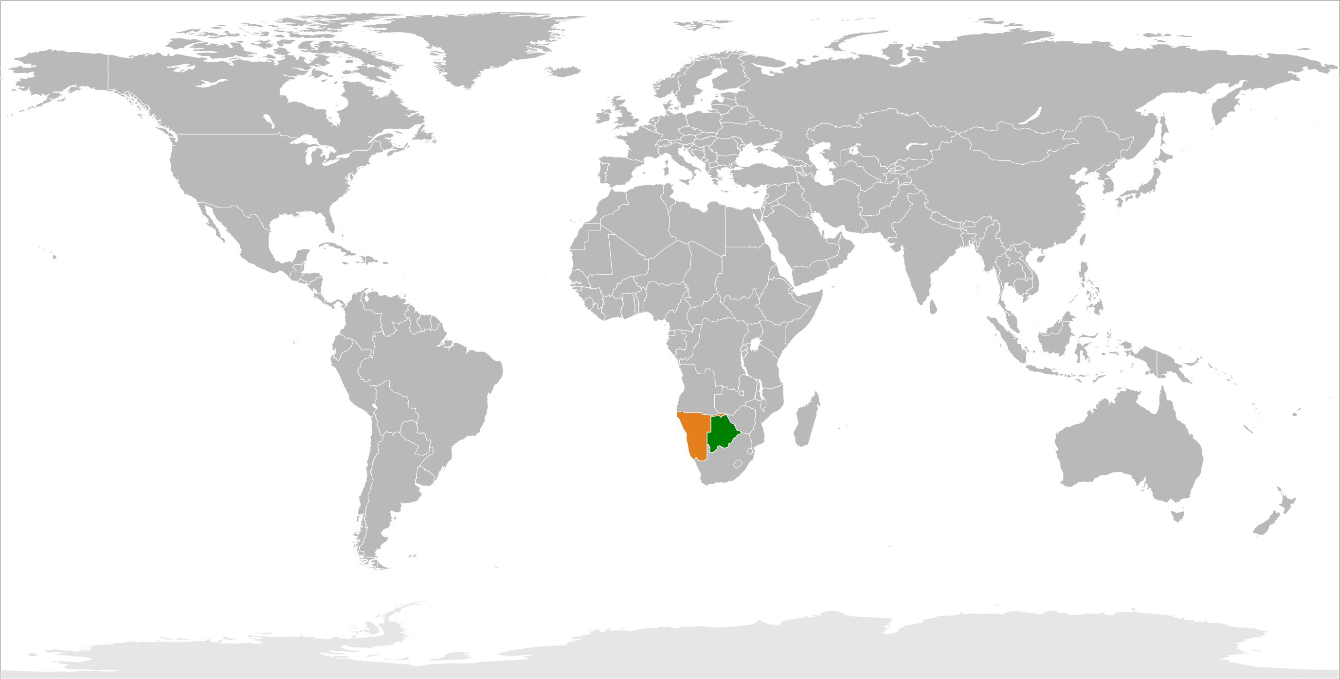 Blank map of Africa